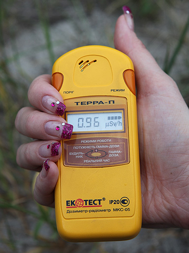 Contaminated grass. 1km from the reactor. You cannot see or feel the invisible enemy... strange feeling. A Terra-P Ekotest (Russian "C" = S!) dosimeter-radiometer IP20 MKS-05 (gamma and beta radiation sensitive Geiger-Muller (Müller) counter) measuring a radiation dose level of 0.96 micro Sievert/hour (μSv/h), which can be compared with a natural background dose of the order of 0.27 μSv/h, check for yourself.